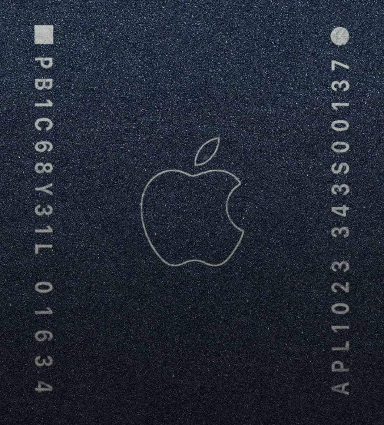 An illustration of Apple's T1 SoC controlling the TouchBar in MacBook Pros. Inspiration for this picture comes from iFixit's teardown of the MBP 13" w TouchBar.